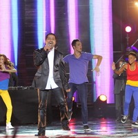 Algerian singer Khaled performs at the 7th annual Concert for Tolerance in Agadir.